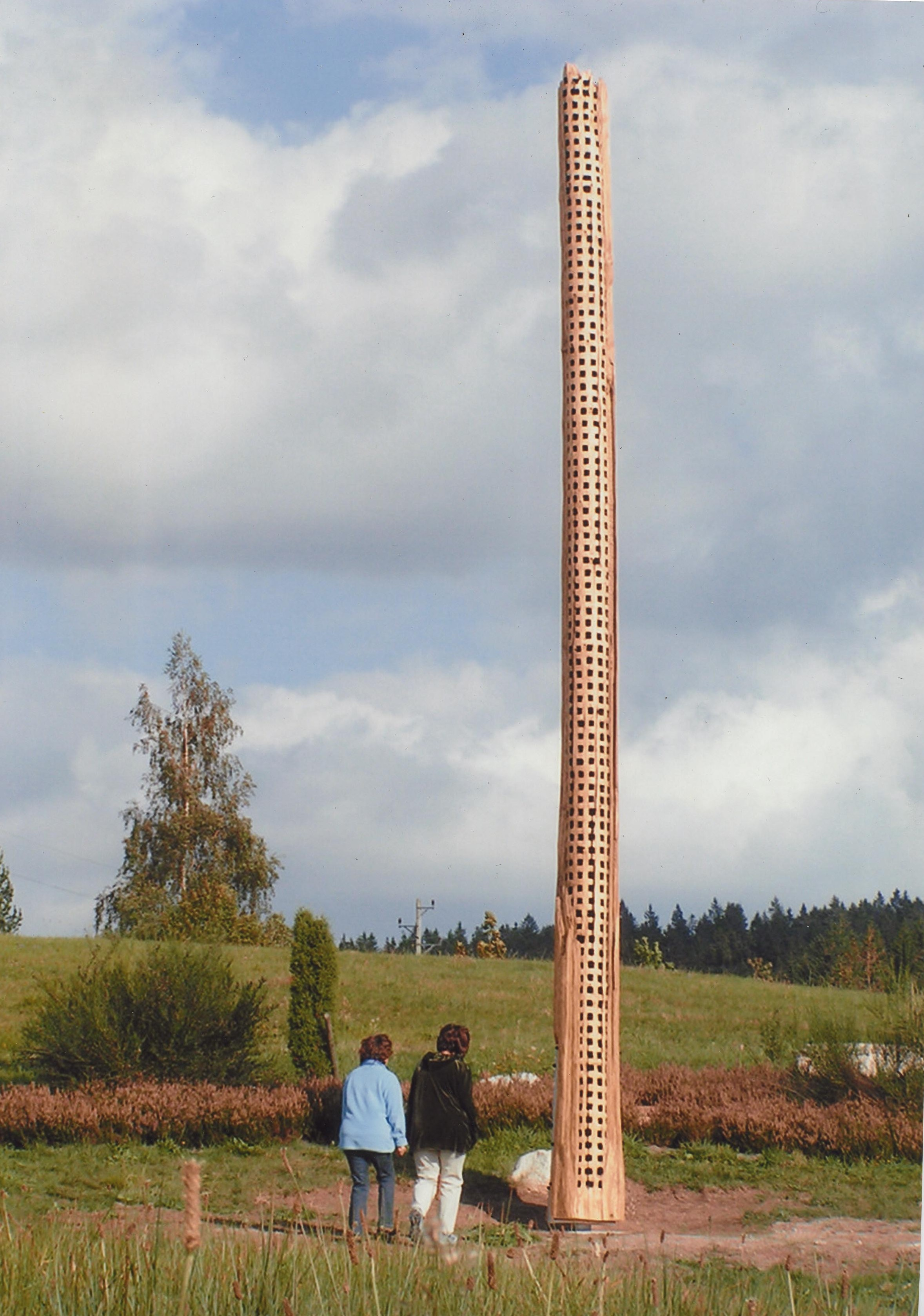 Skulpture Blackforest Column, 2004, by Gordon Brown, in Schluchsee (Germany)